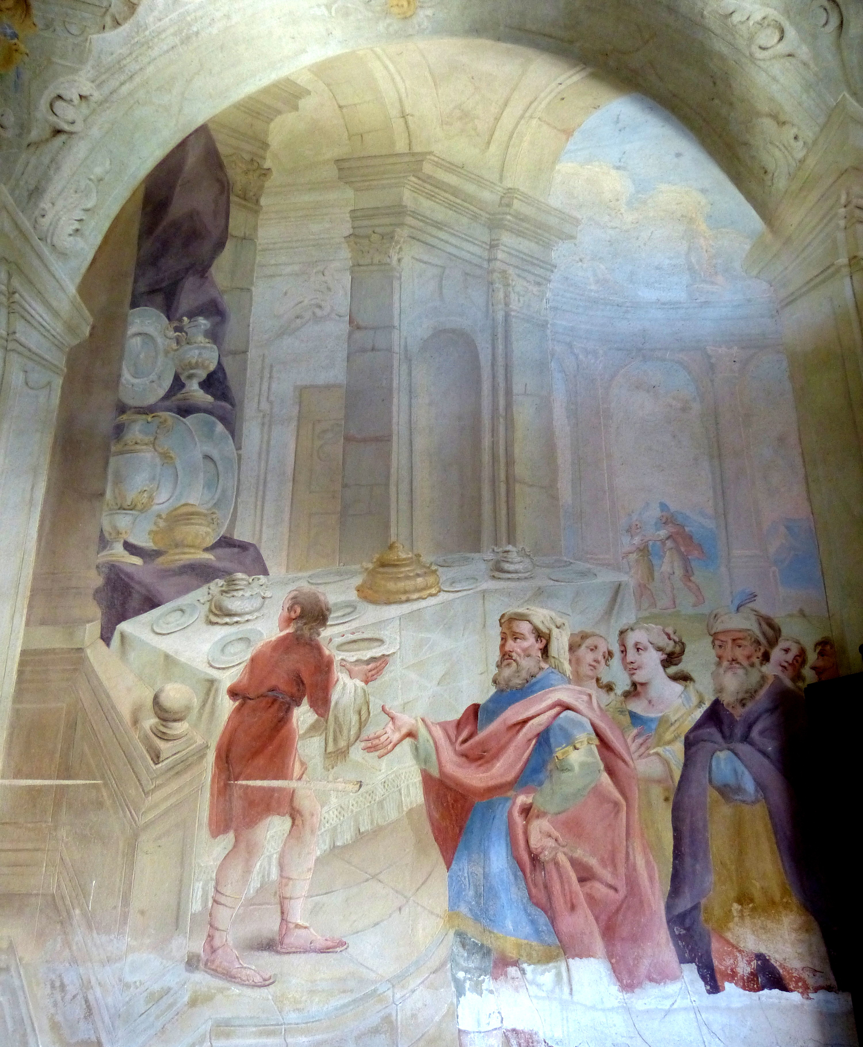 Aldersbach abbey ( Lower Bavaria ). Mary Assumption parish church: Narthex - Fresco (1760) illustrating the Gospel of Matthew 22, 7: "See, the meal is ready, come!"